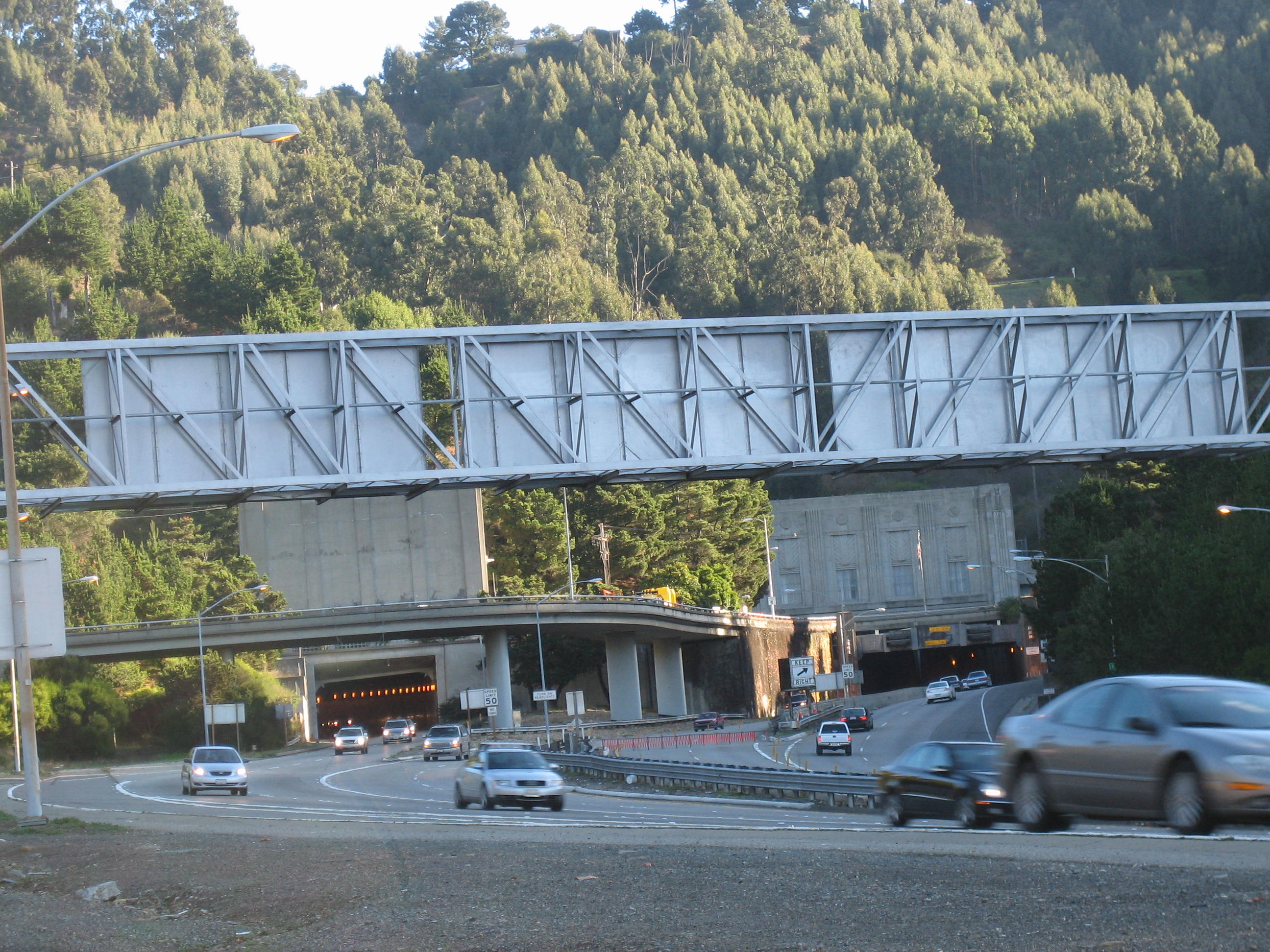 Uploading image by Daniel Olsen.